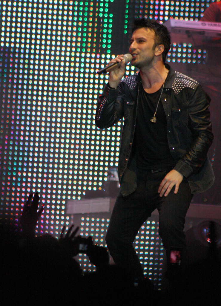 Turkish singer Tarkan.